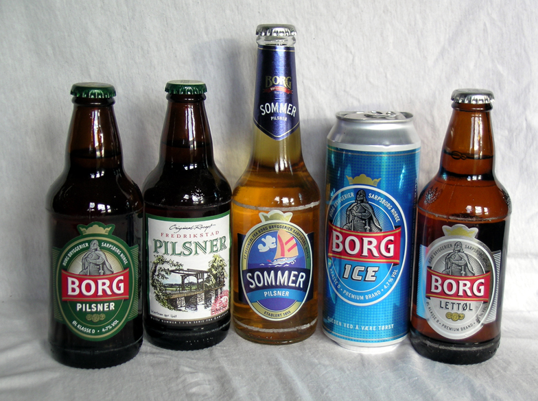 A selection of beers from Borg Bryggerier, Norway.